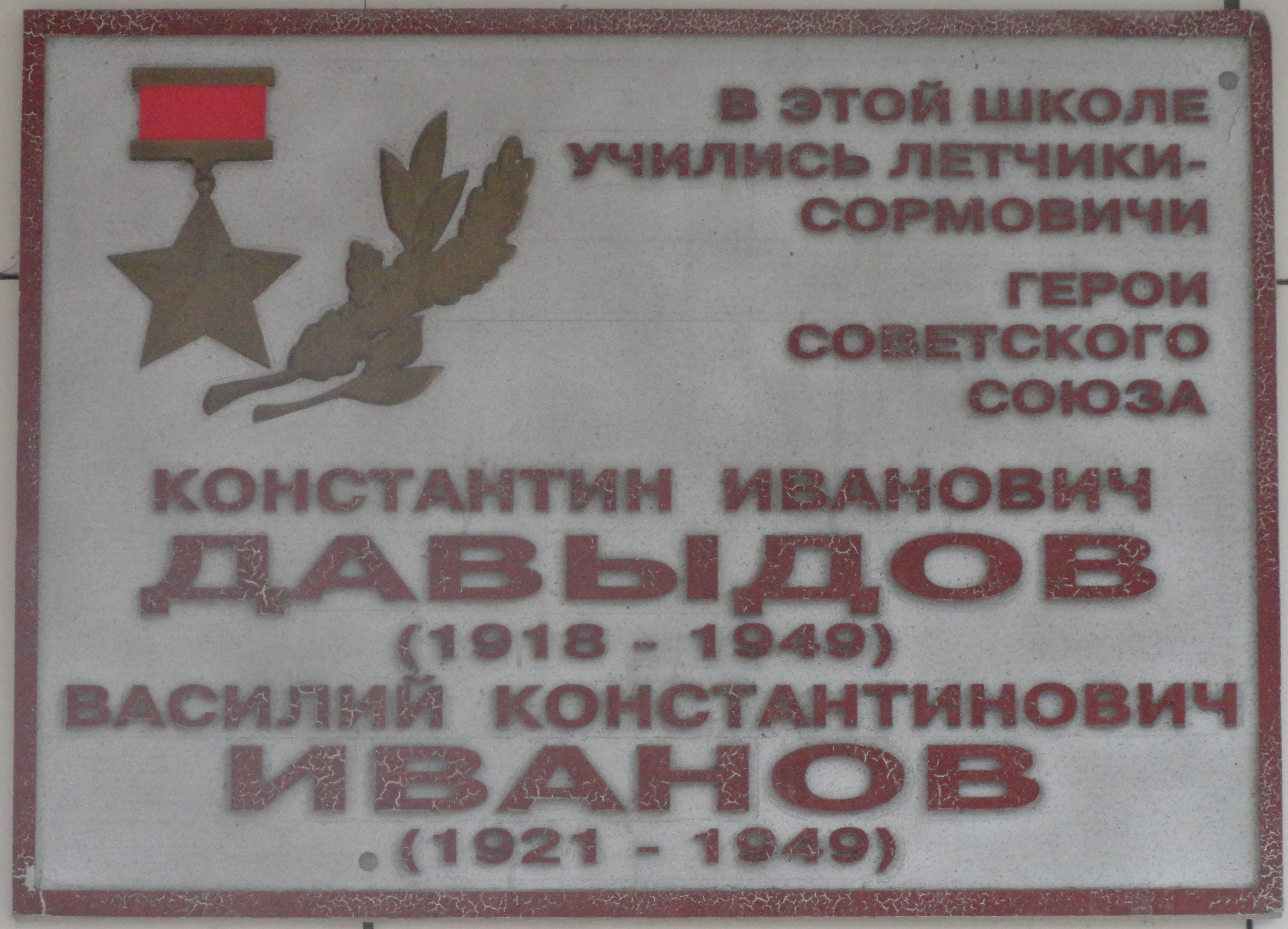 A memorial plaque dedicated to the Heroes of the Soviet Union Davydov Konstantin Ivanovich and Ivanovomebel Konstantinovich. Installed on the building of Lyceum No. 82 in Sormovo, Nizhny Novgorod.